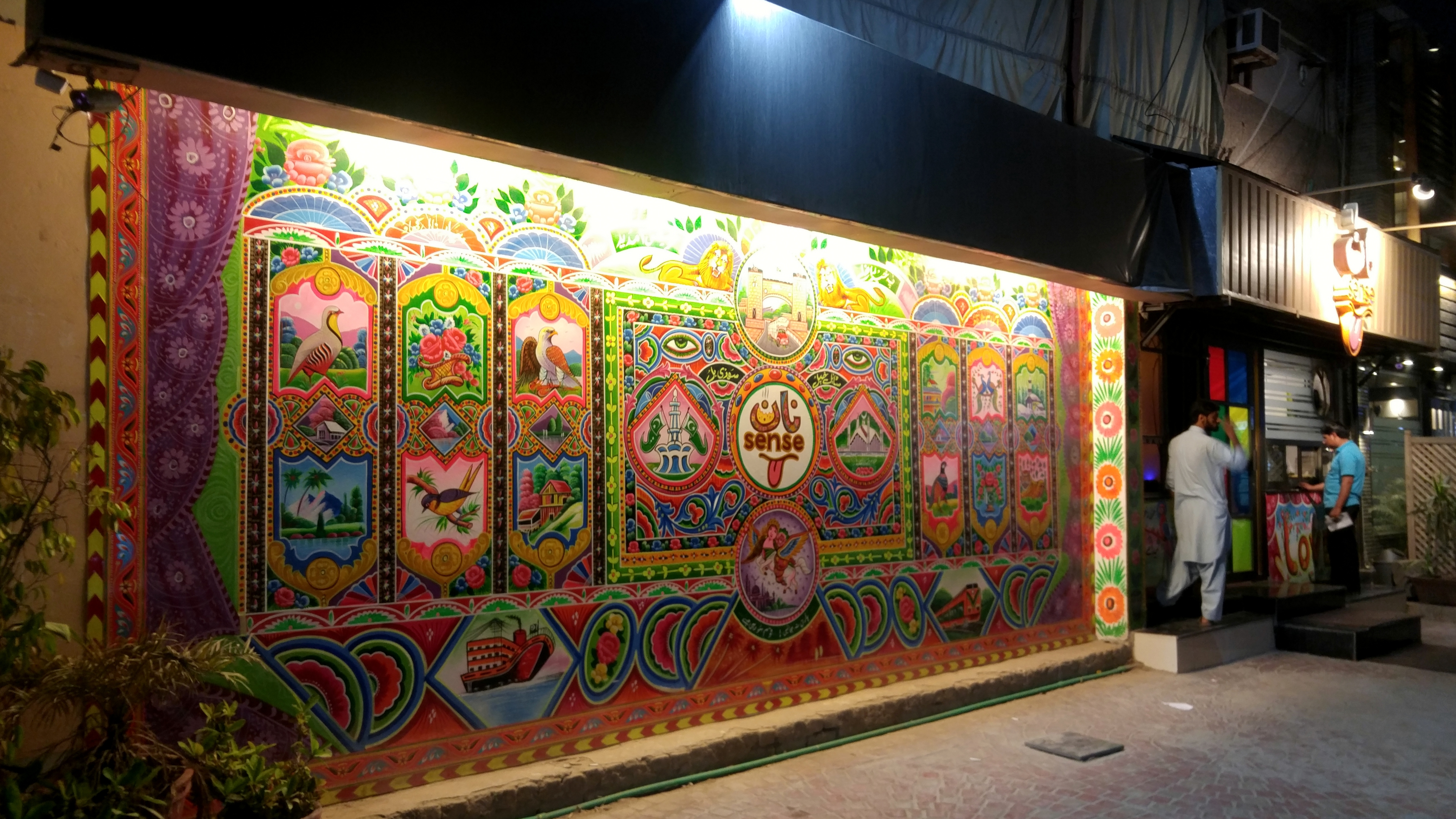 Naan Sense University Town Peshawar